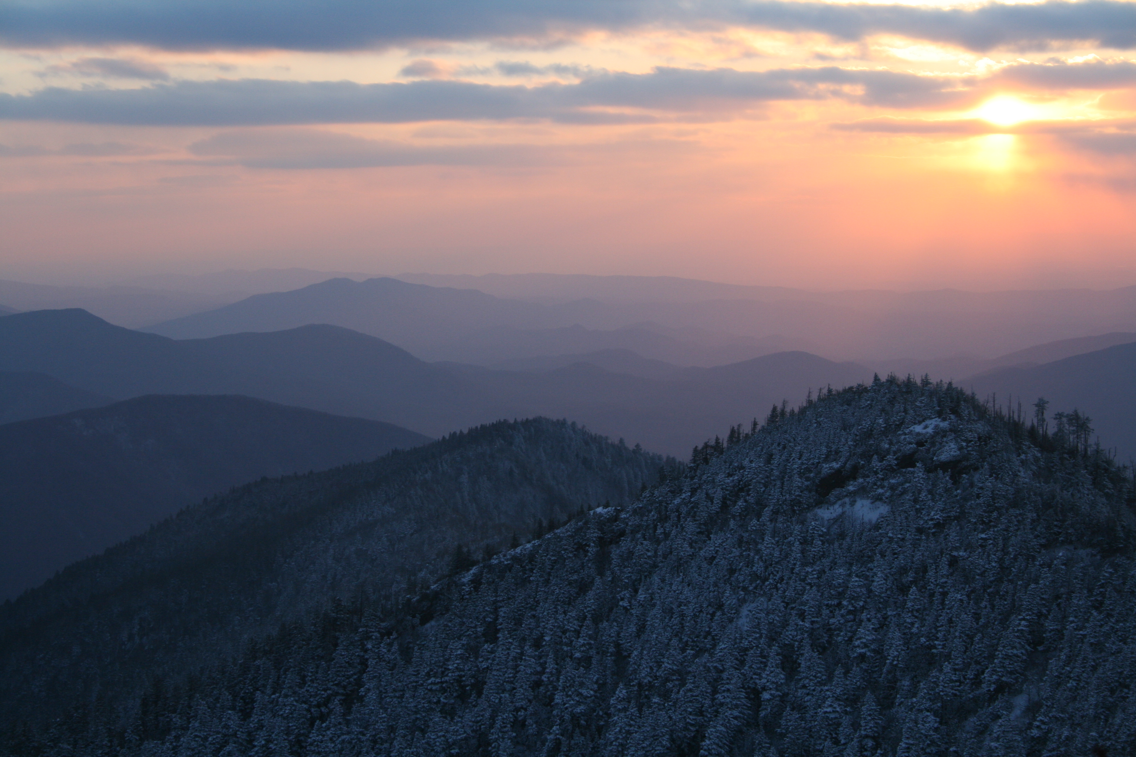 The photo was taken at 7:50PM EST on April 7, 2007 at the Cliff Tops on Mount Le Conte, in the Great Smoky Mountains of Sevier County, Tennessee, USA.